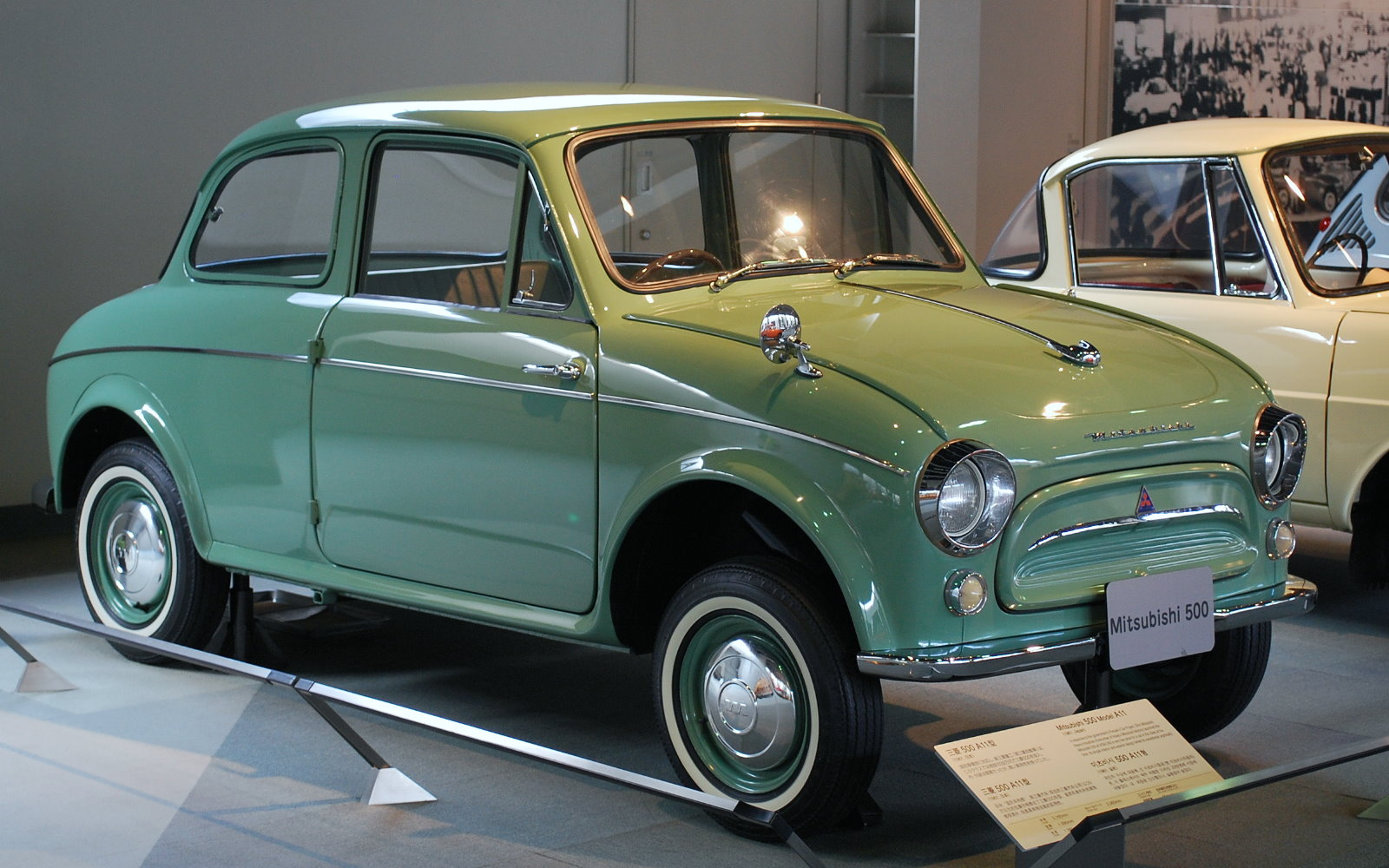 Mitsubishi 500 Model A11